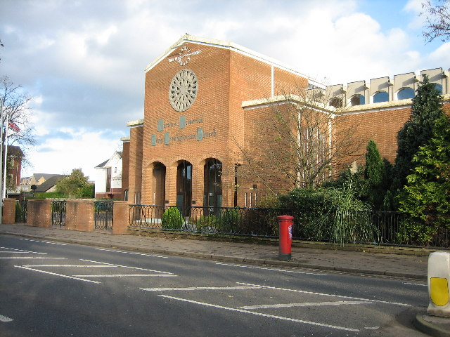 Martyrs Memorial Free Presbyterian Church. This Church was completed in 1969. Its Minister is Rev Ian Paisley.